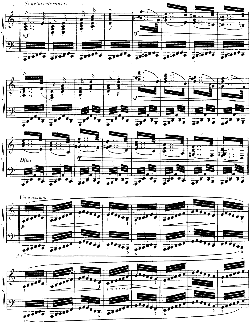 Excerpt from Charles-Valentin Alkan's Comme le vent, Op. 39 No. 1. A higher resolution version of File:Comme-le-vent.jpg.